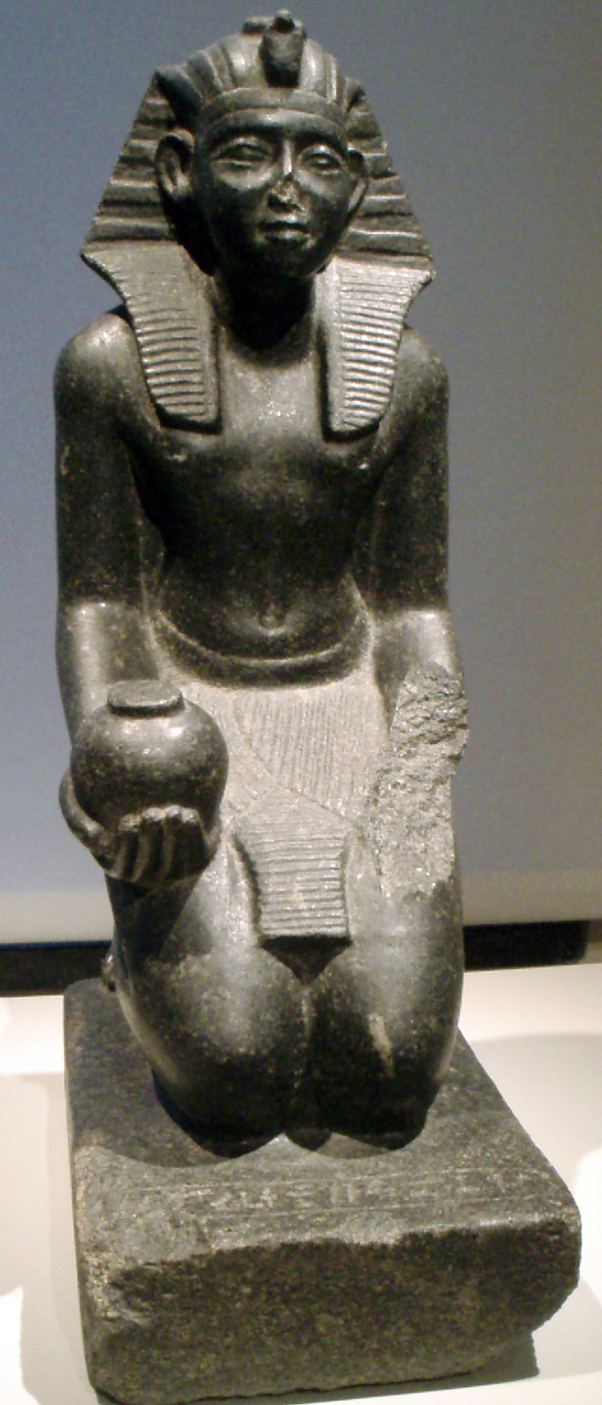 Photo of a kneeling statue depicting the pharoah Sobekhotep V. Circa 1750-1700 B.C. Photo taken at the Altes Museum, Berlin, with slight twiddling in Photoshop (contrast, colour, cropping, etc). Catalog number: P 10645.